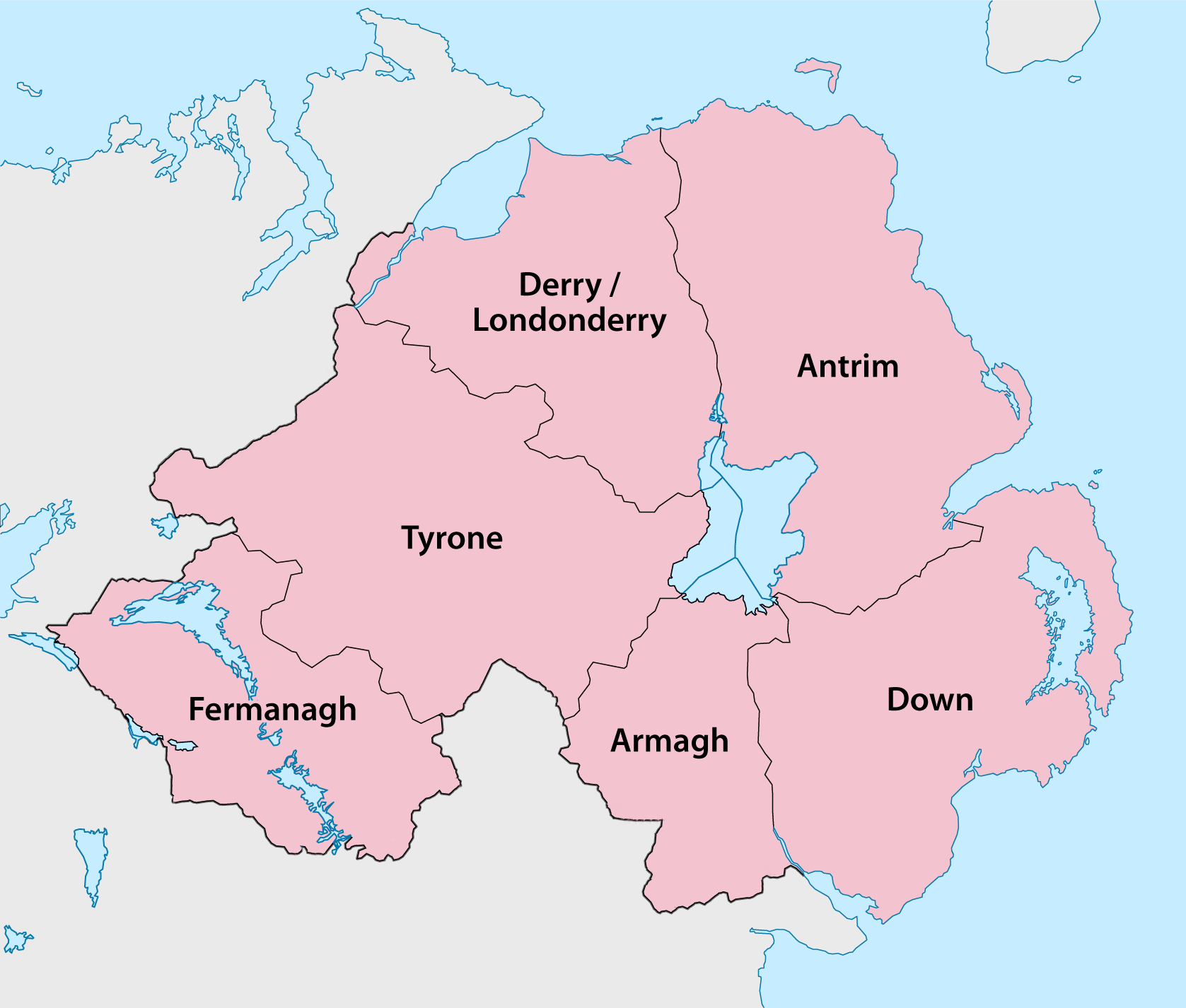 Northern Ireland Map